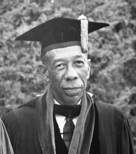 George William Gore at a FMAU graduation